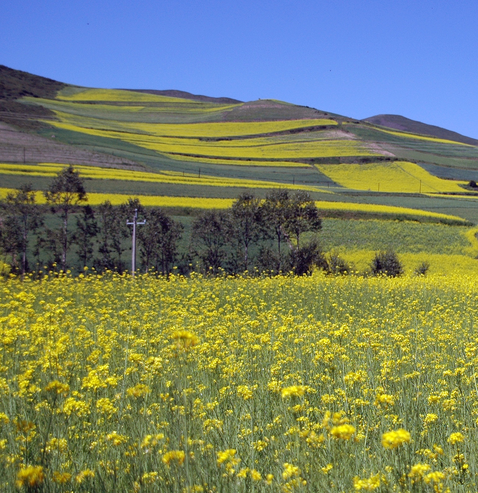 Rapeseed fields in Qinghai — southern China.